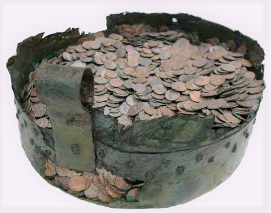 Antoninian Treasure of Valsadornín. This treasure composed of about 45 kilos of coins was found half-buried in a cut of a road in the Palencian village of Valsadornín inside a bronze cauldron. The total weight could have reached 50 kilos, but some of the coins were plundered in the moments immediately after their discovery. Some coins were distributed among relevant people in the area of Cervera de Pisuerga and the capital of Palencia. This is one of the greatest treasures of the Iberian Peninsula along with that of Tomares. A study has been made from 2421 restored coins, representing 14% of the total treasure with a total weight of 6.2kgs. The data from this study determine that all the pieces are Antoninians minted in the middle of the 3rd century (between 252 and 269) and a large number of these Antoninians are dated to the second stage of Galieno's coinage (from 266). Translated with (free version)